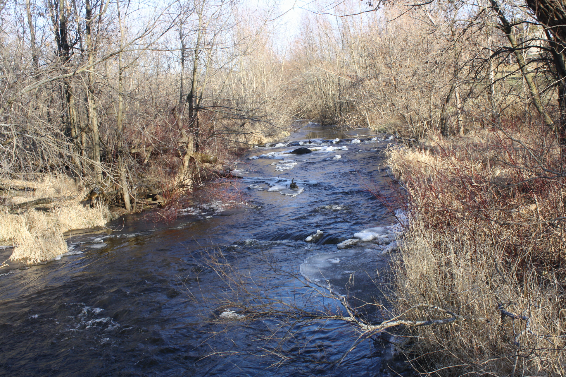 The east branch of the Milwaukee River just west of New Fane, Wisconsin.